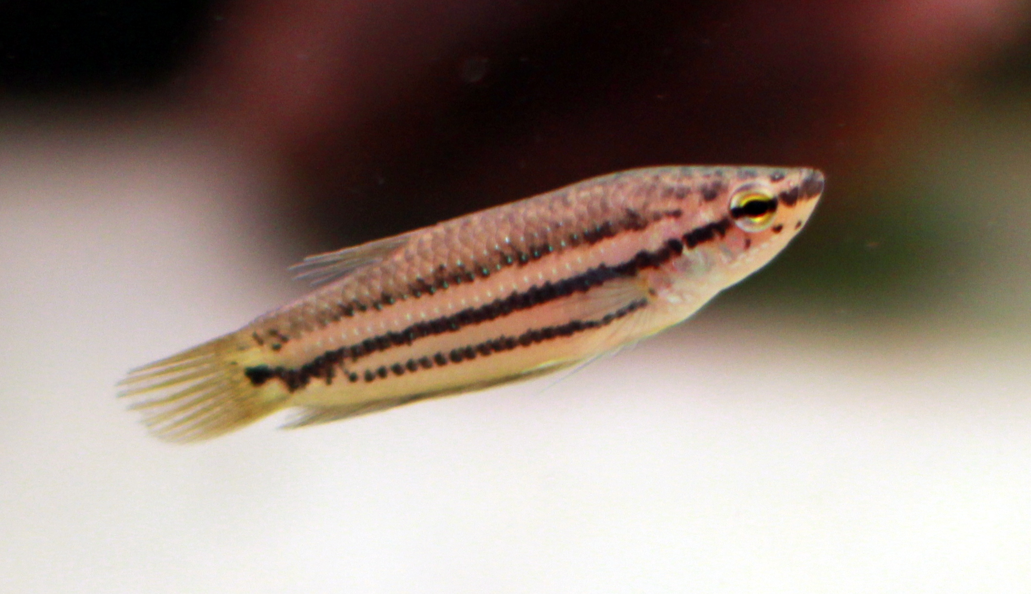 Betta edithae